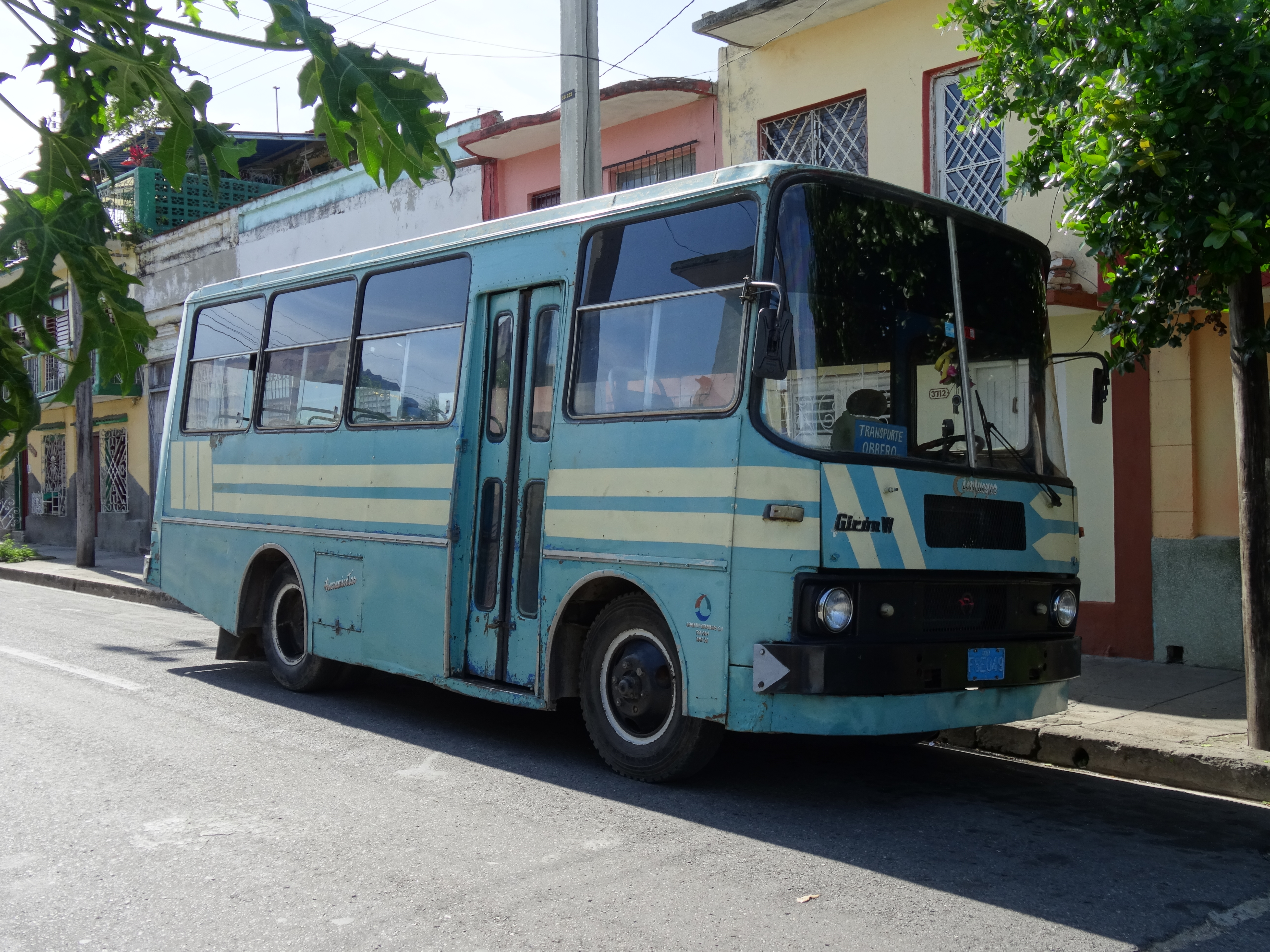 Cuban bus Girón VI.